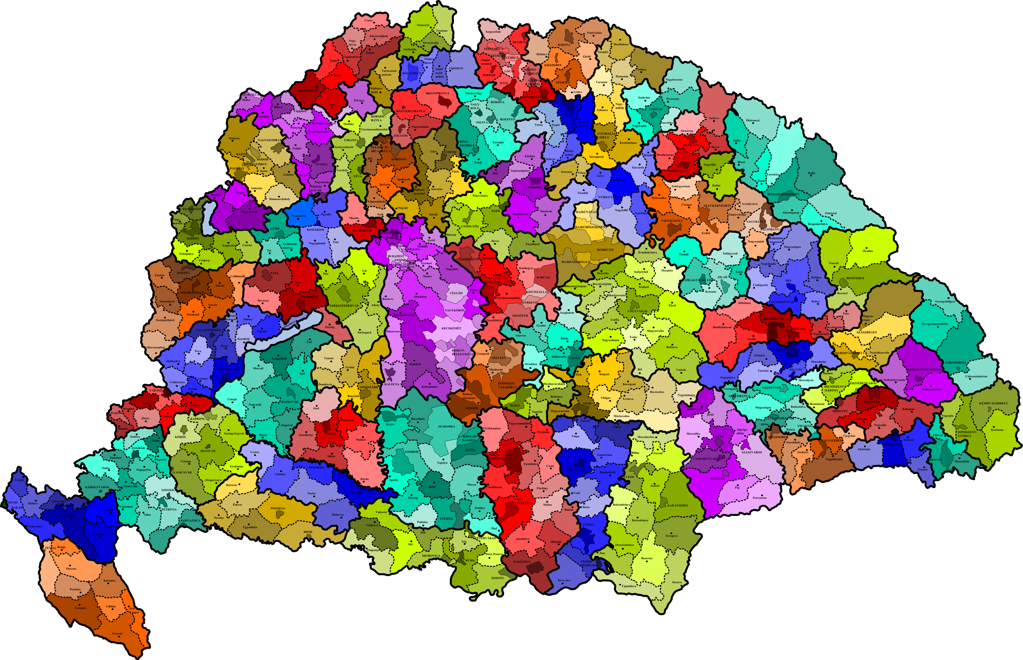 Hungary